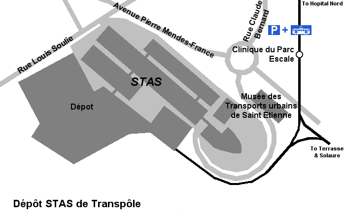 Map of Saint Etienne Tramway Transpole Depot, Saint Etienne.